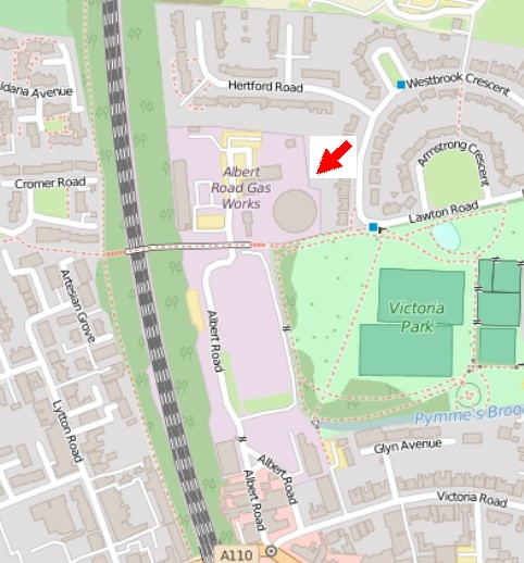 Location of Albert Road gas holder, New Barnet. Open street map plus arrow added by Philafrenzy.